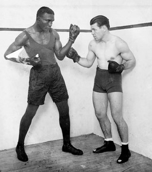 "Full-length portrait of pugilists Tiger Flowers, who is African American, and Mickey Walker facing one another, standing in boxing stances in front of a light-colored wall in a room in Chicago, Illinois."